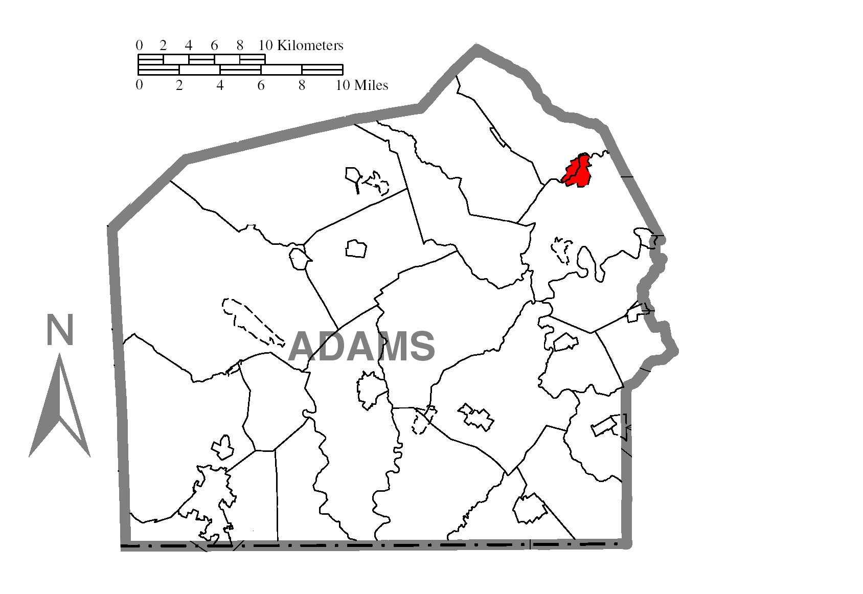 A map of Adams County showing Lake Meade, Pennsylvania (alternate) highlighted on the map.